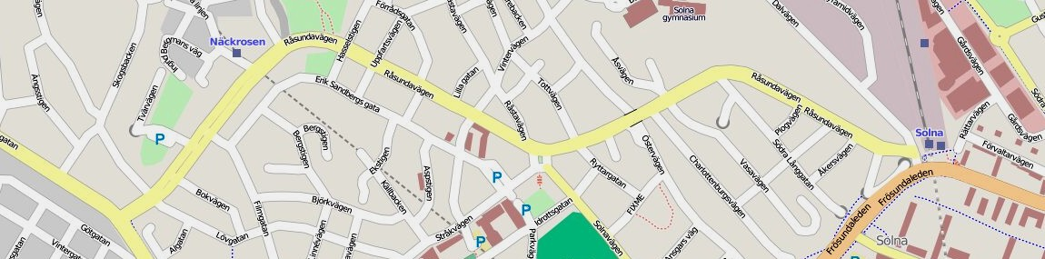 Råsundavägen in Solna, Sweden